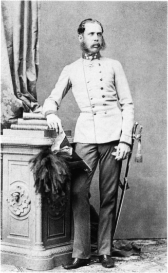 Archduke Karl Ludwig of Austria